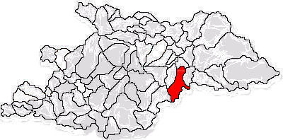 Map of Dragomireşti town in Maramureş